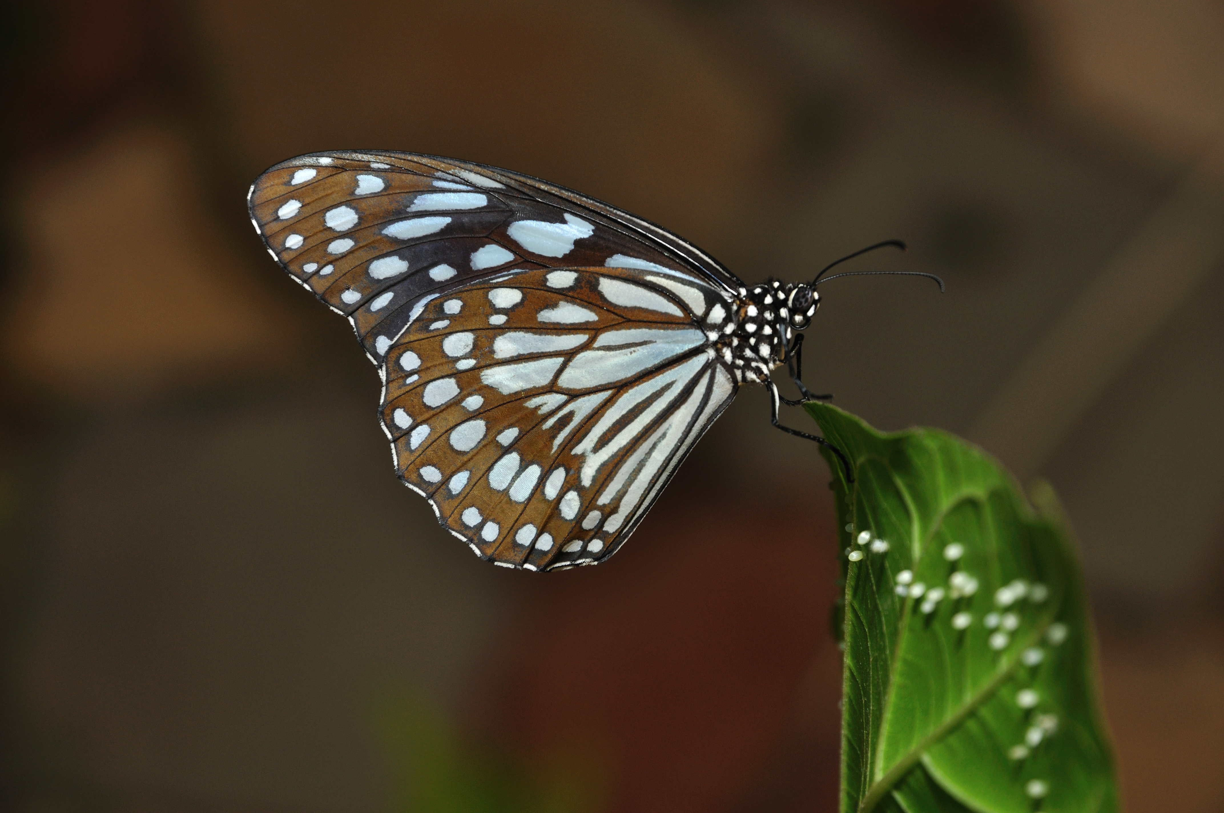 A common Butterfly, grown-up in artificial environment at Science City, Kolkata, India.